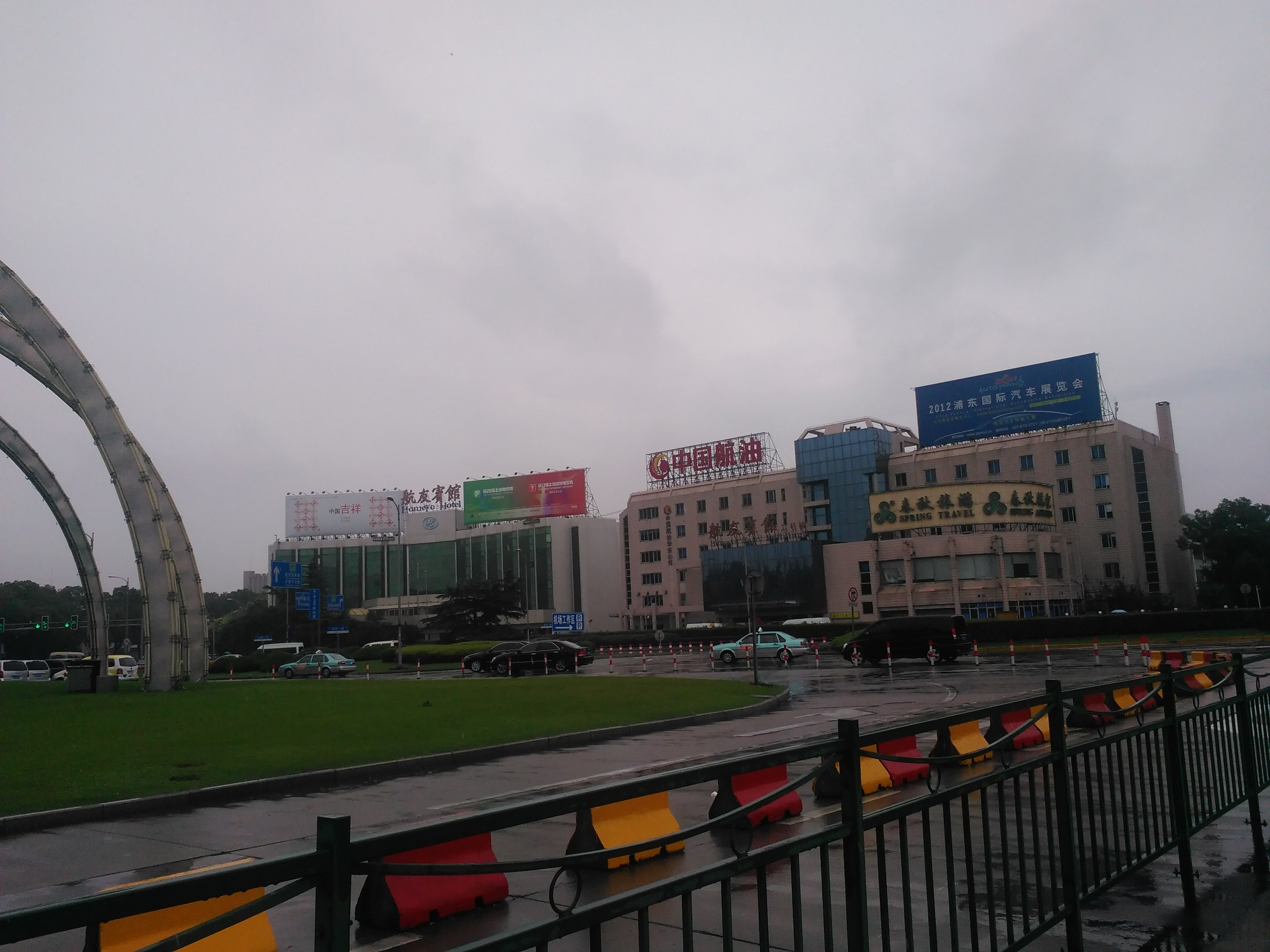 Homeyo Hotel and Homeyo Hotel Building 2 (S: 航友宾馆二号楼, T: 航友賓館二號樓, P: Hángyǒu Bīnguǎn Èrhào Lóu) (Spring Airlines headquarters)